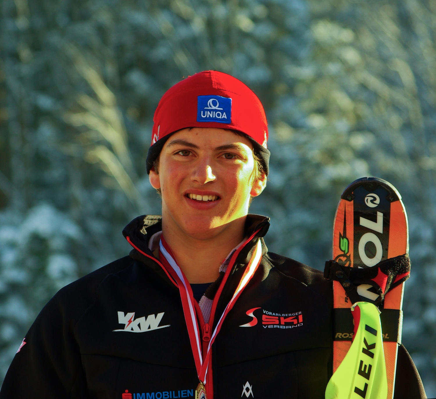 Austrian alpine skier Frederic Berthold at the prize giving ceremony for the slalom of the Austrian Junior Championships 2008 in Lackenhof.